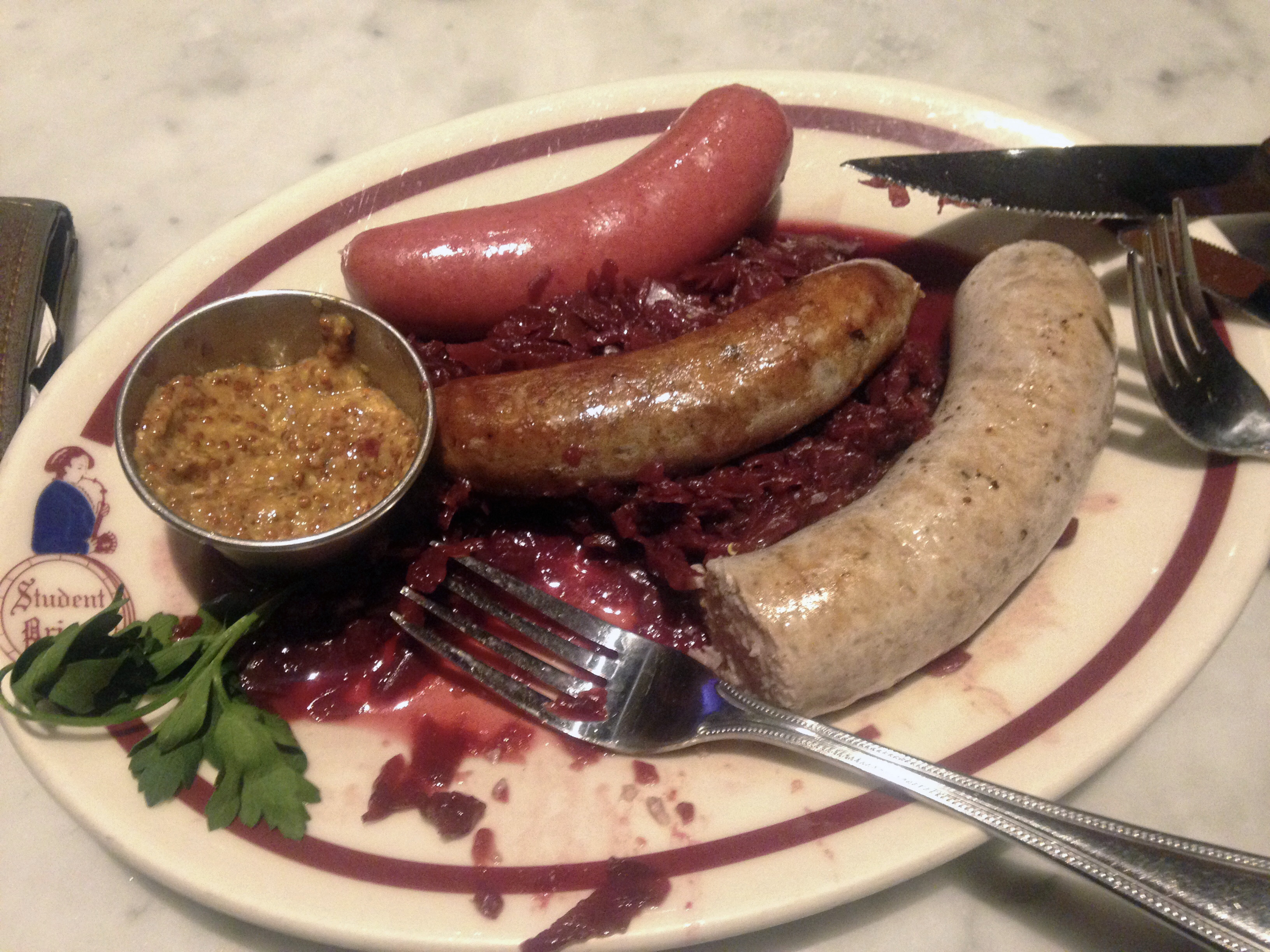 A house-made wurstplatte from The Student Prince German restaurant in Springfield, Massachusetts. The three wursts shown are knackwurst (top), boar and cranberry (center), and bratwurst.